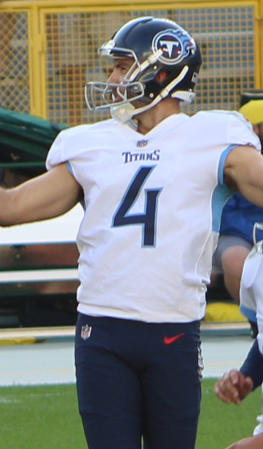 Ryan Succop, Tennessee Titans at Green Bay Packers (Preseason), August 9, 2018